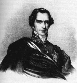 Wolf Adolf von Luttichau